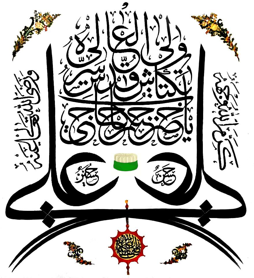 Mirror Calligraphy